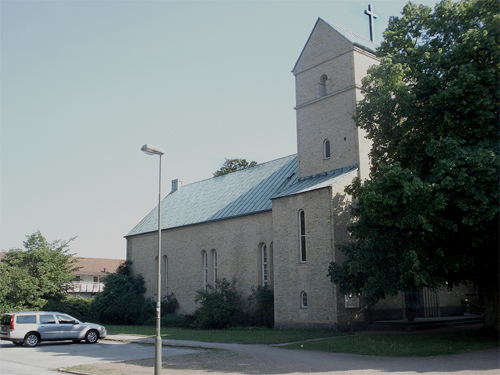 The German Church in Malmö